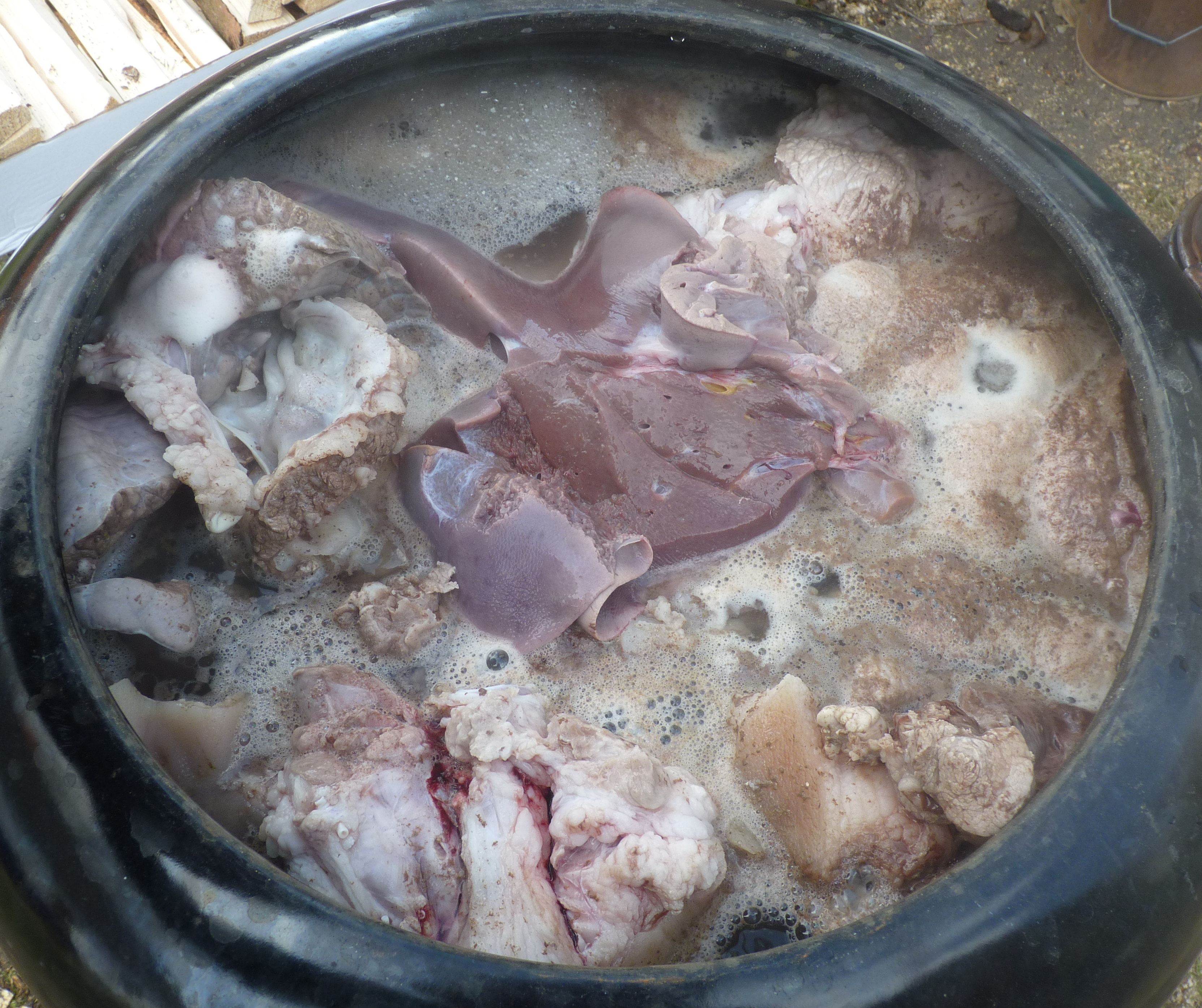 Pig slaughter in the Czech Republic